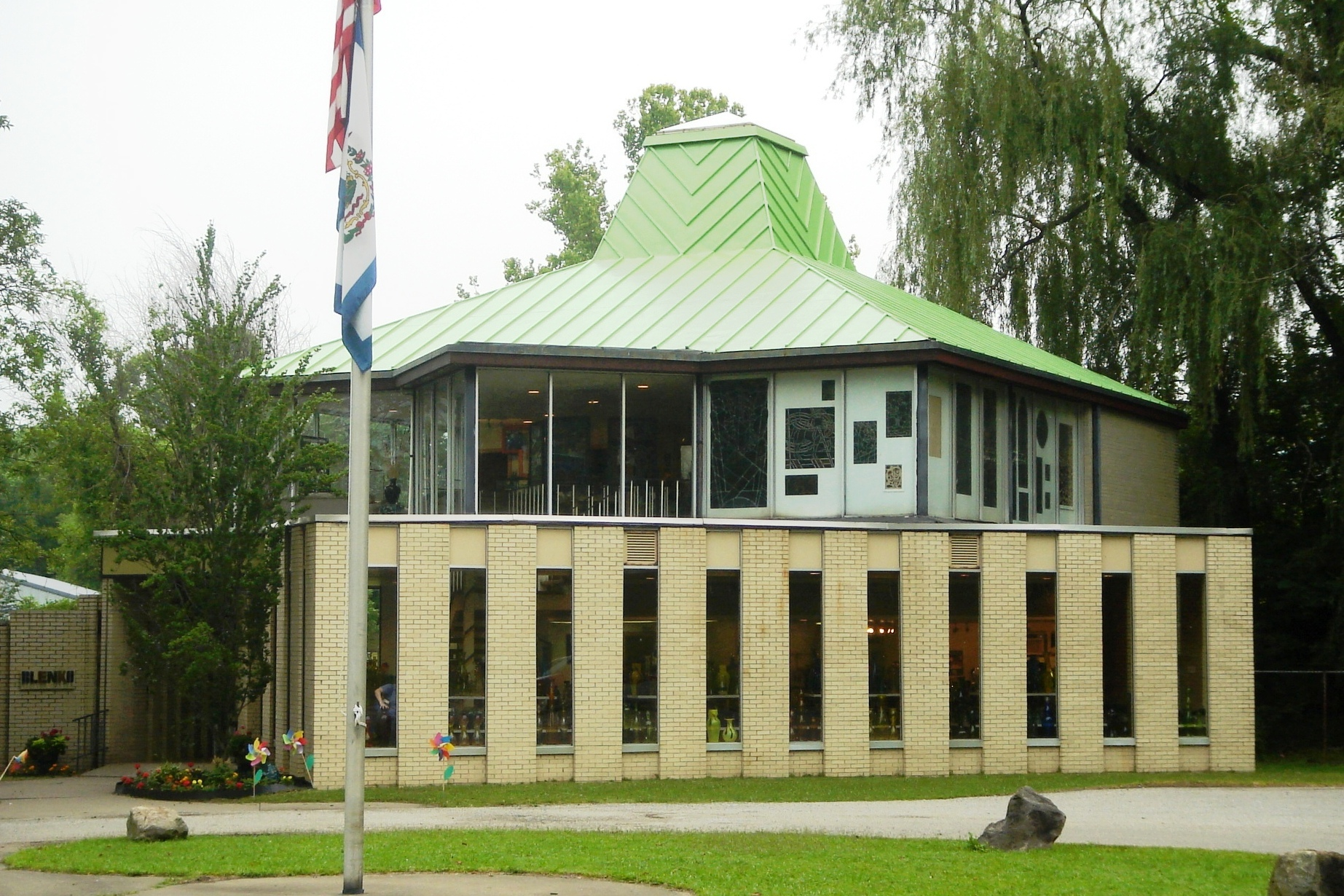 Visitor Center, Blenko Glass Factory, Milton, WV